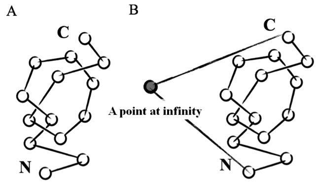 To Detect Protein Knots